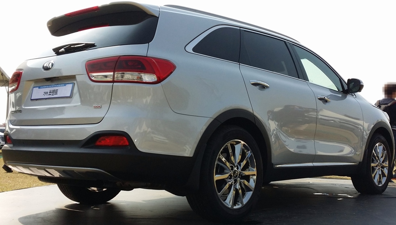 Kia All New Sorento